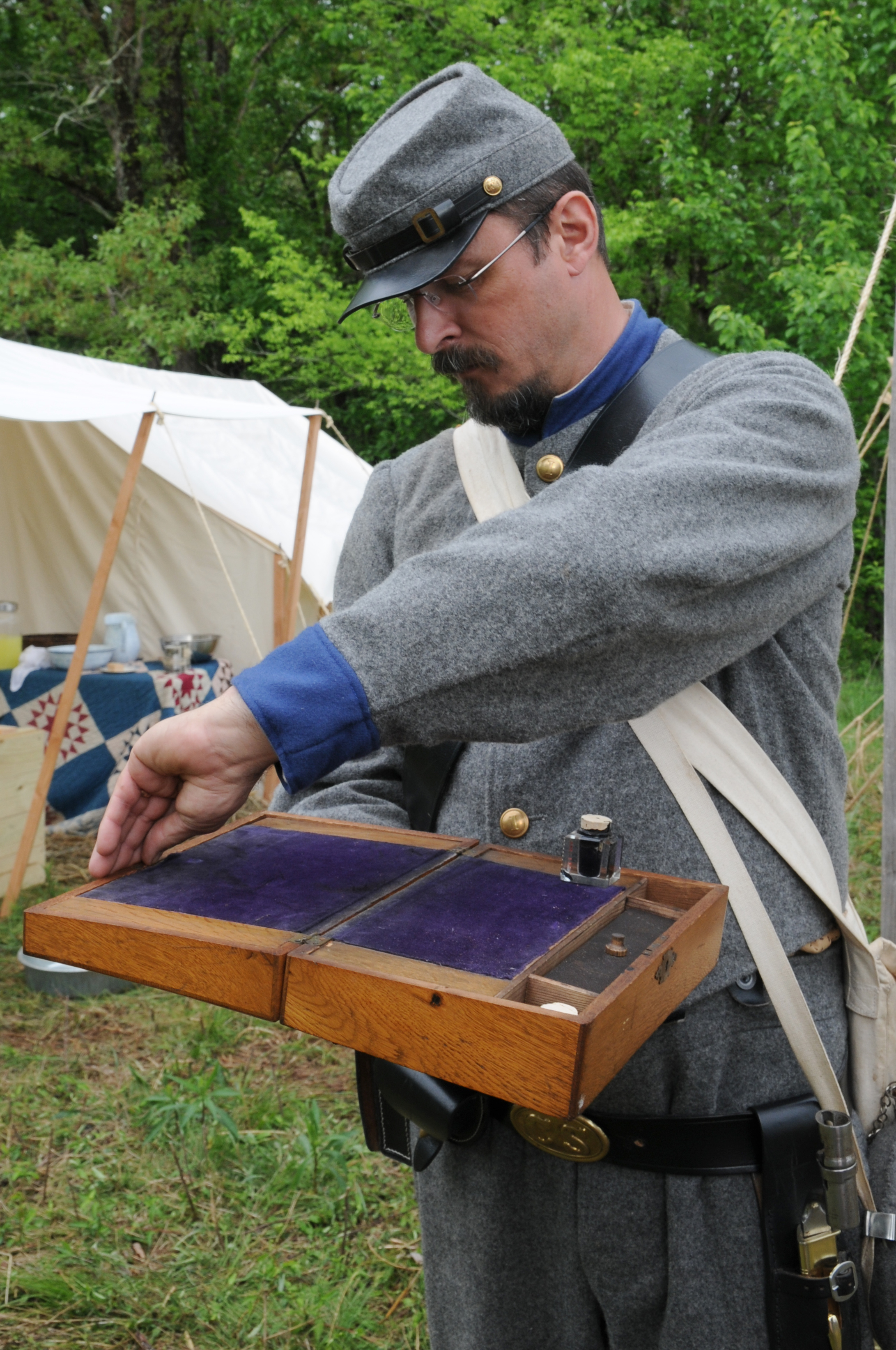 Roby F. Evans, personnel security specialist for the 412th TEC, displays his Civil War period era lap desk with ink wells and quill pens. He received the gift from his wife for Valentine's Day. Evans is a participating in the reenactment of the Battle of Shiloh, March 31, 2012.